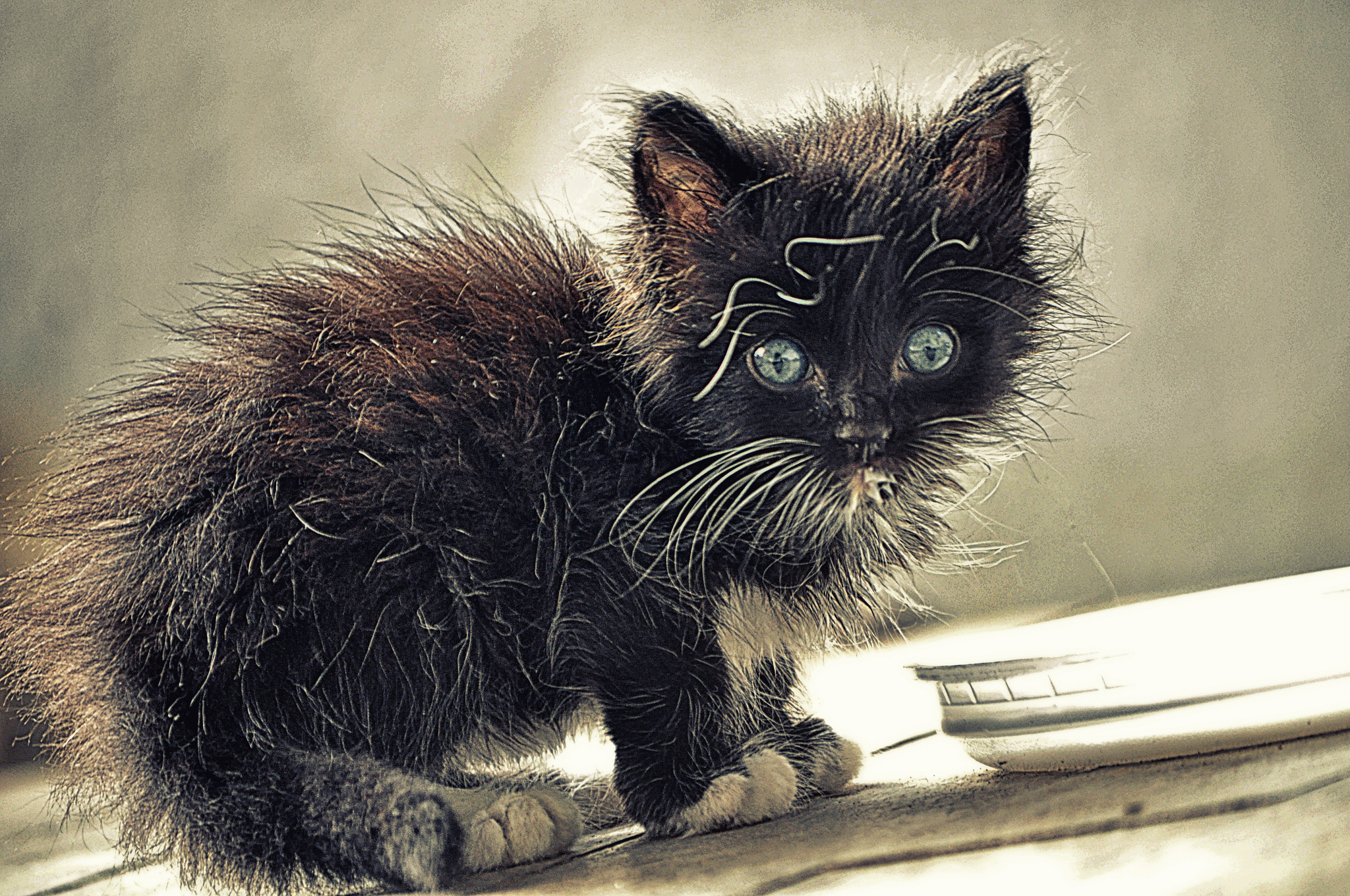 Hairy kitten with blue eyes